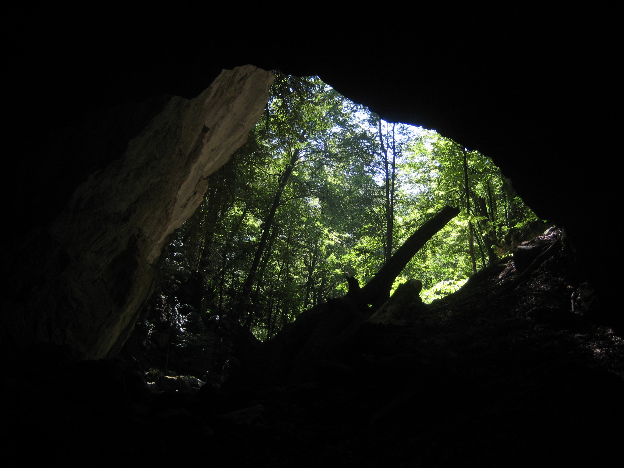 Mihova jama, cave in southern Slovenia